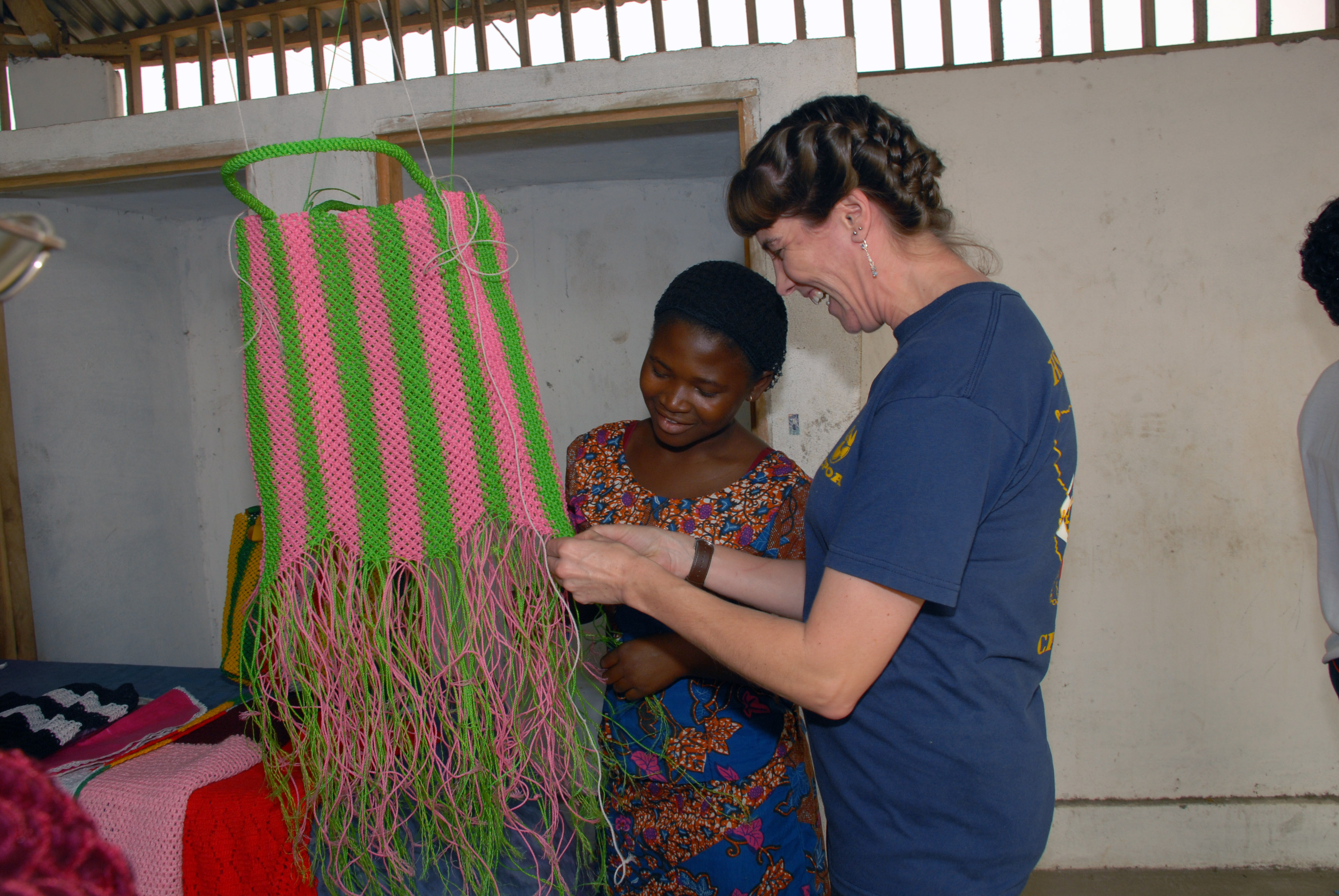 LOME, Togo, (Jan. 30, 2008) Mineman 1st class April Morehouse, an Africa Partnership Station (APS) volunteer assigned to the high speed vessel Swift (HSV 2), is taught how to weave a basket by a young girl at the Centre d' Accueil Orphanage. APS volunteers donated toys and hygiene products to the children. APS is part of the Navy's new cooperative maritime strategy involving a multi-national effort to bring maritime safety and security through transparent international partnerships. U.S. Navy photo by Mass Communication Specialist 2nd Class Elizabeth Merriam (Released)